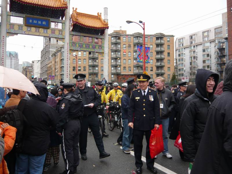 Jim Chu4